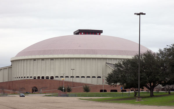 Photo of Cajundome in Lafayette, LA by Aaron charles